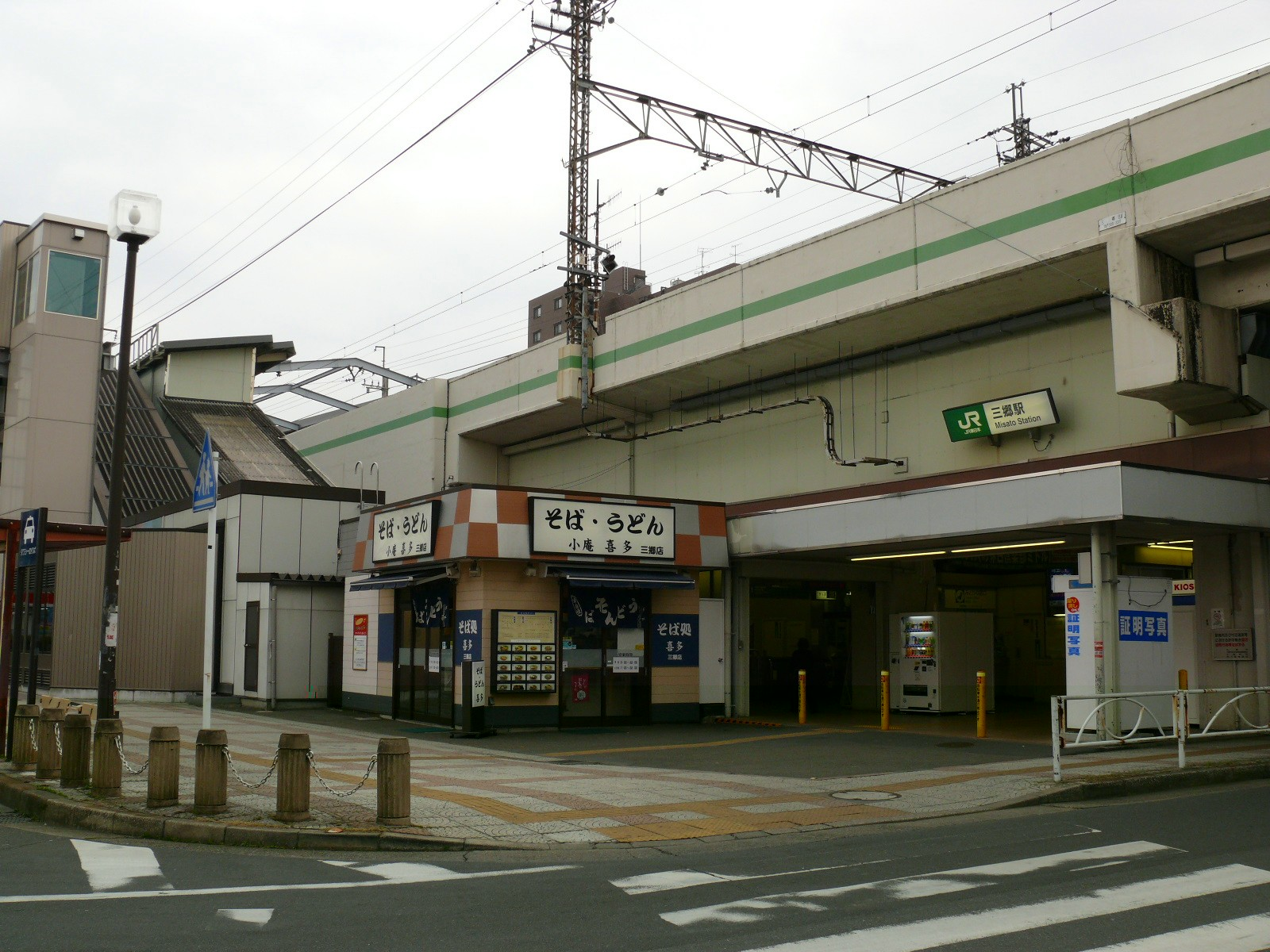 The North entrance of Misato Station on the Musashino Line in Saitama Prefecture, Japan